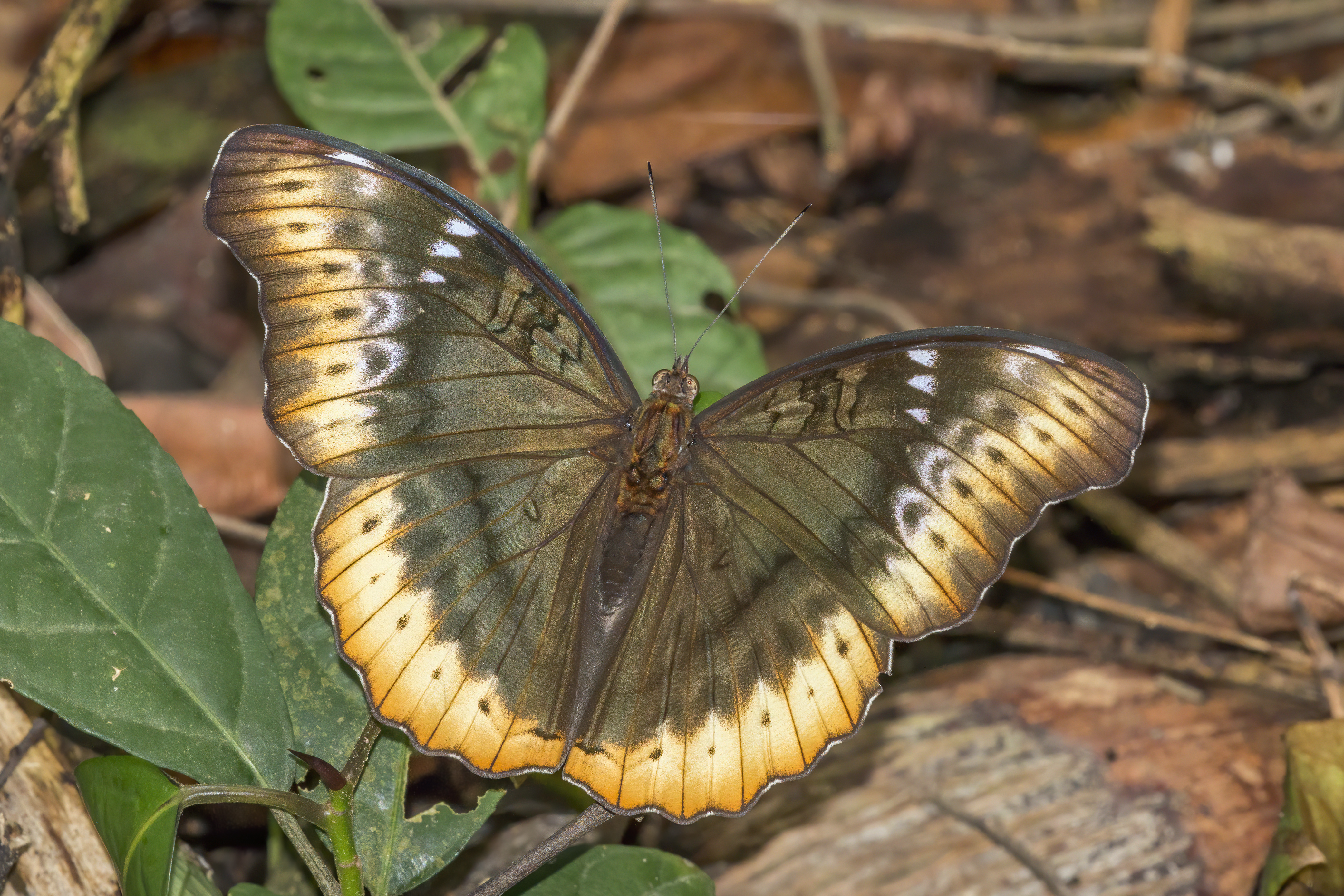 Scalloped yellow glider (Cymothoe fumana fumana) female, Kakum National Park, Ghana